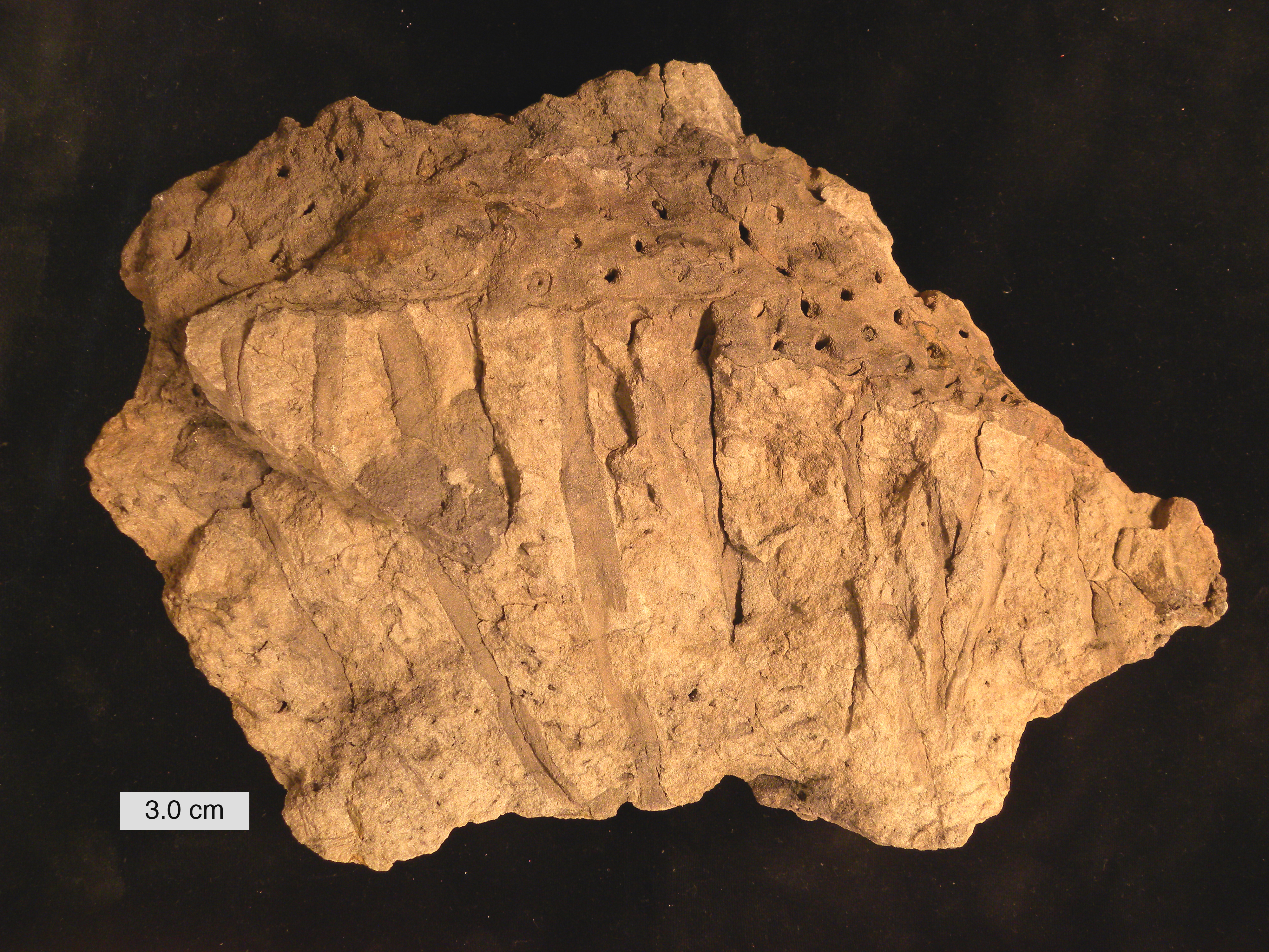 Lepidodendron root (Stigmaria) with rootlets attached. Upper Carboniferous of northeastern Ohio. Found by Larry Stauffer.